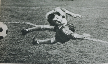 Andrusch, the great goalkeeper of the Dorog in the early 1980's